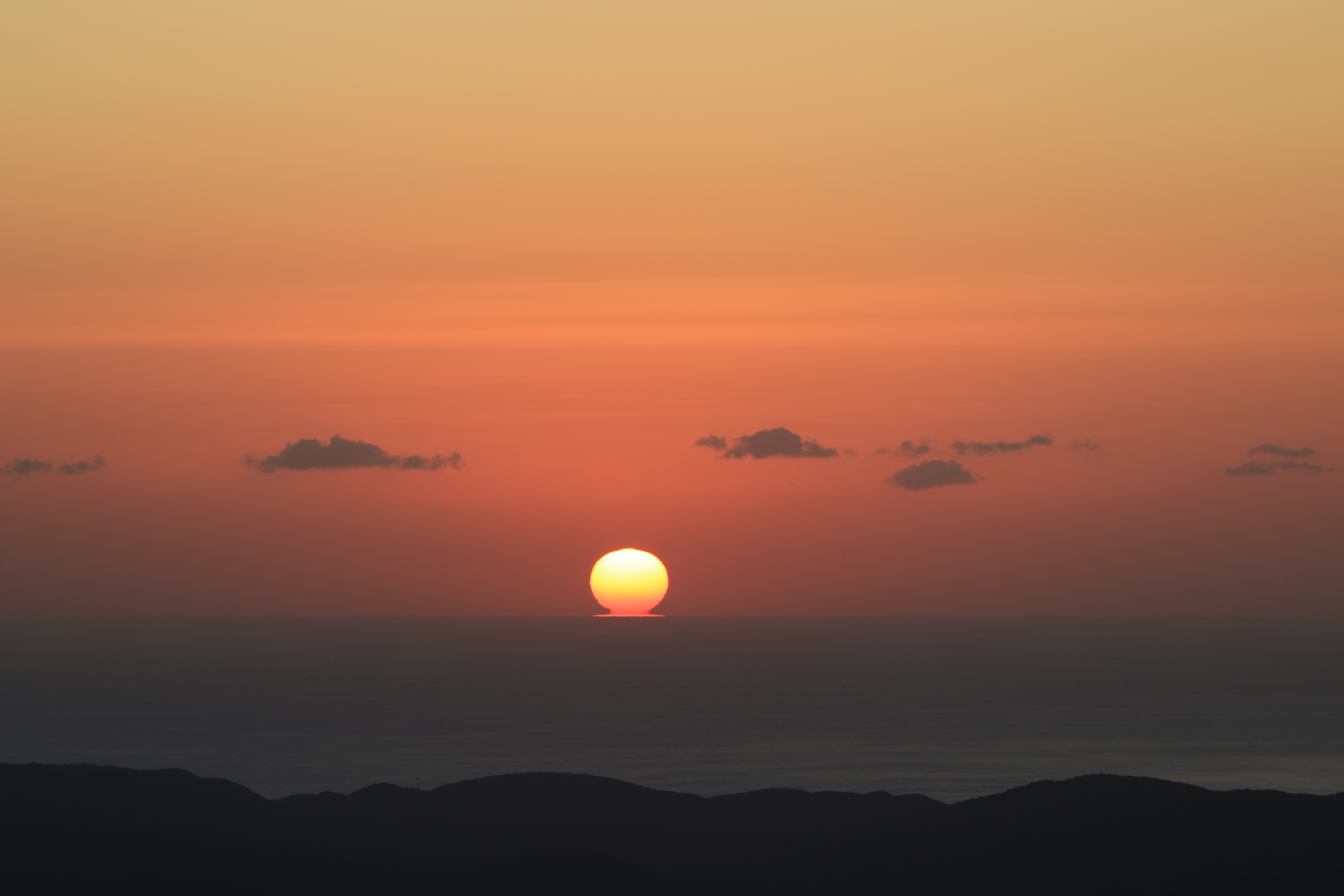 Sunrise seen from Ise-Shima Skyline on Mount Asama, Ise , Mie Prefecture, Japan.